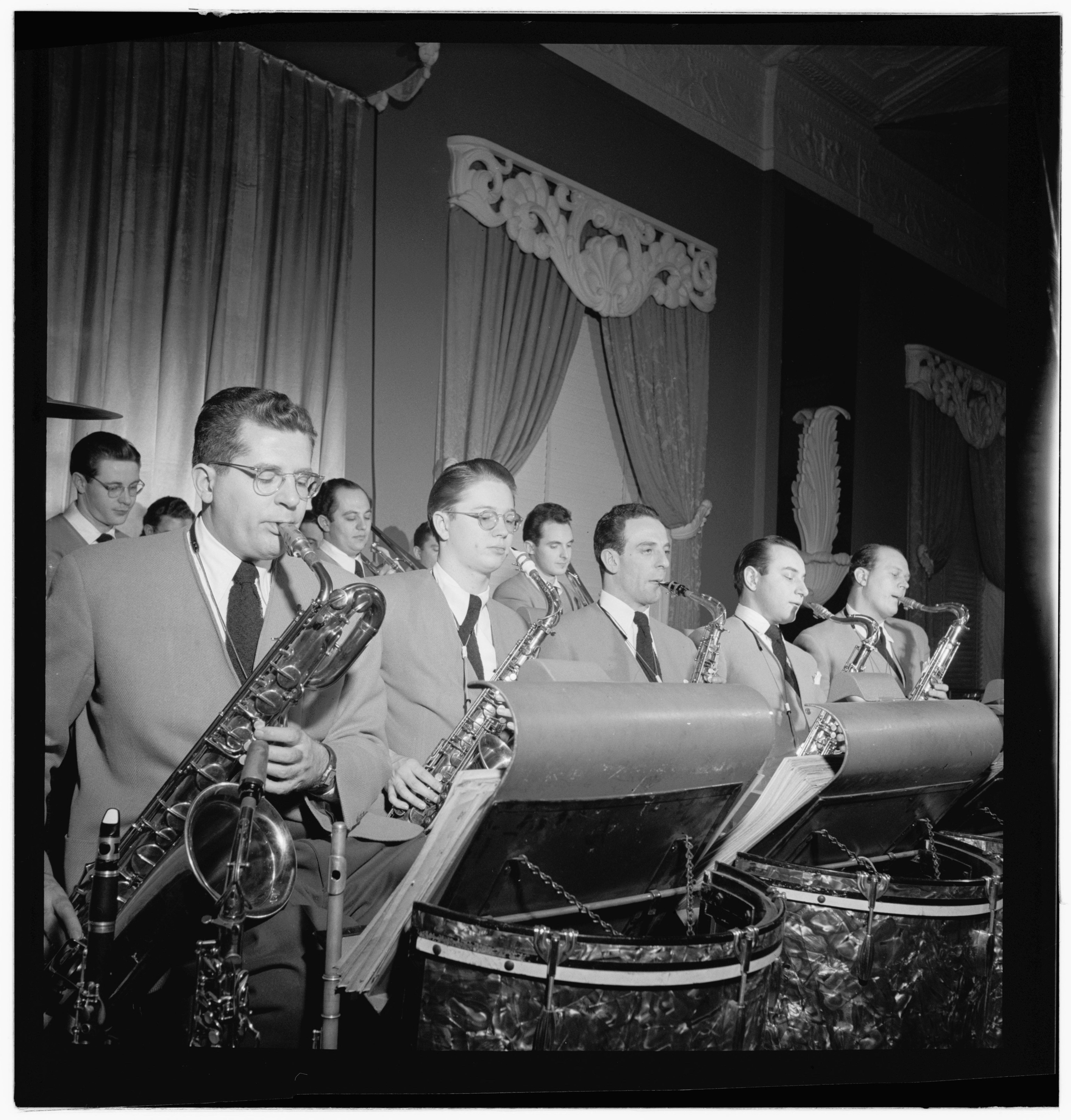 Gottlieb, William P., 1917-, photographer. [Portrait of (Robert) Dean Kincaide, Bill Ainsworth, Ray Beller, Peanuts Hucko, Pete Terry, Vernon Friley, Irv Dinkin, and Jim Harwood, Hotel Commodore, Century Room, New York, N.Y., ca. Jan. 1947] 1 negative : b&w ; 2 1/4 x 2 1/4 in. Caption from Down Beat: (Above at left) Saxophone section of the Ray McKinley band, (left to right) Dean Kincaide, Bill Ainsworth, Ray Beller, Peanuts Hucko, Pete Terry; Notes: Gottlieb Collection Assignment No. 219 Purchase William P. Gottlieb Forms part of: William P. Gottlieb Collection (Library of Congress). In: "McKinley ork plays most interesting dance music in biz," Down Beat, v. 16, no. 3 (Jan. 29, 1947), p. 8. Subjects: Kincaide, (Robert) Dean Ainsworth, Bill Beller, Ray Hucko, Peanuts Terry, Pete Friley, Vernon, 1924- Dinkin, Irv Harwood, Jim Ray McKinley Orchestra Jazz musicians--1940-1950. Big bands--1940-1950. Saxophonists--1940-1950. Hotel Commodore Format: Portrait photographs--1940-1950. Group portraits--1940-1950. Film negatives--1940-1950. Rights Info: Mr. Gottlieb has dedicated these works to the public domain, but rights of privacy and publicity may apply. Repository: (negative) Library of Congress, Prints & Photographs Division, Washington D.C. 20540 USA, Part Of: William P. Gottlieb Collection (DLC) 99-401005 General information about the Gottlieb Collection is available at Persistent URL: Call Number: LC-GLB23- 1372 This work is from the William P. Gottlieb collection at the Library of Congress. Rights and restrictions. In accordance with the wishes of William Gottlieb, the photographs in this collection entered into the public domain on February 16, 2010.